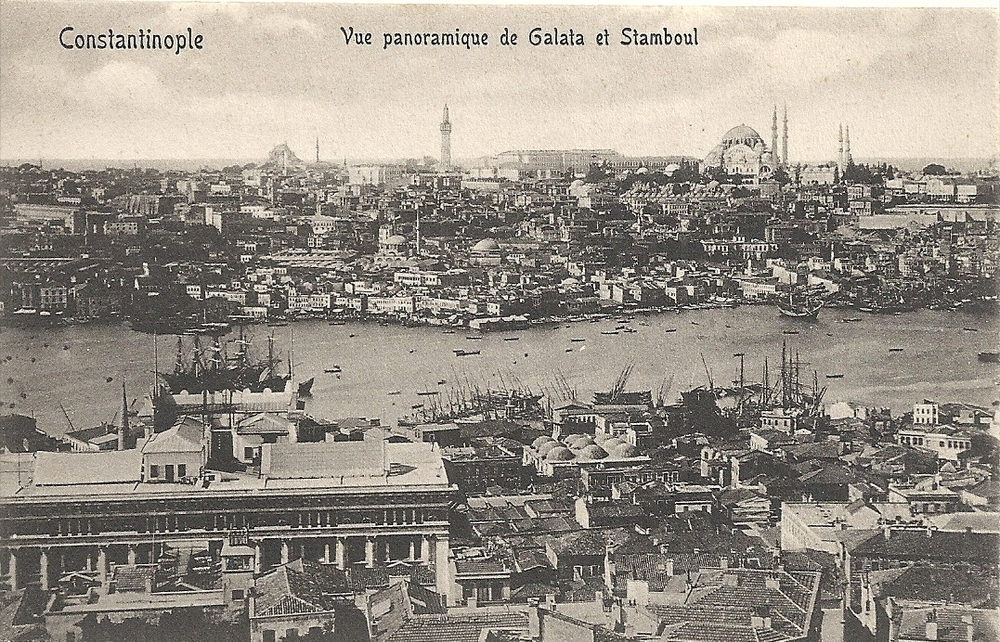 Mid to late nineteenth-century panoramic view of Constantinople seen from the north. Galata in the foreground and, across the Golden Horn, Stamboul, the ancient historical part of Constantinople. Postcard from circa 1905-1910. Since the 1920s, the entire city is officially named Istanbul.